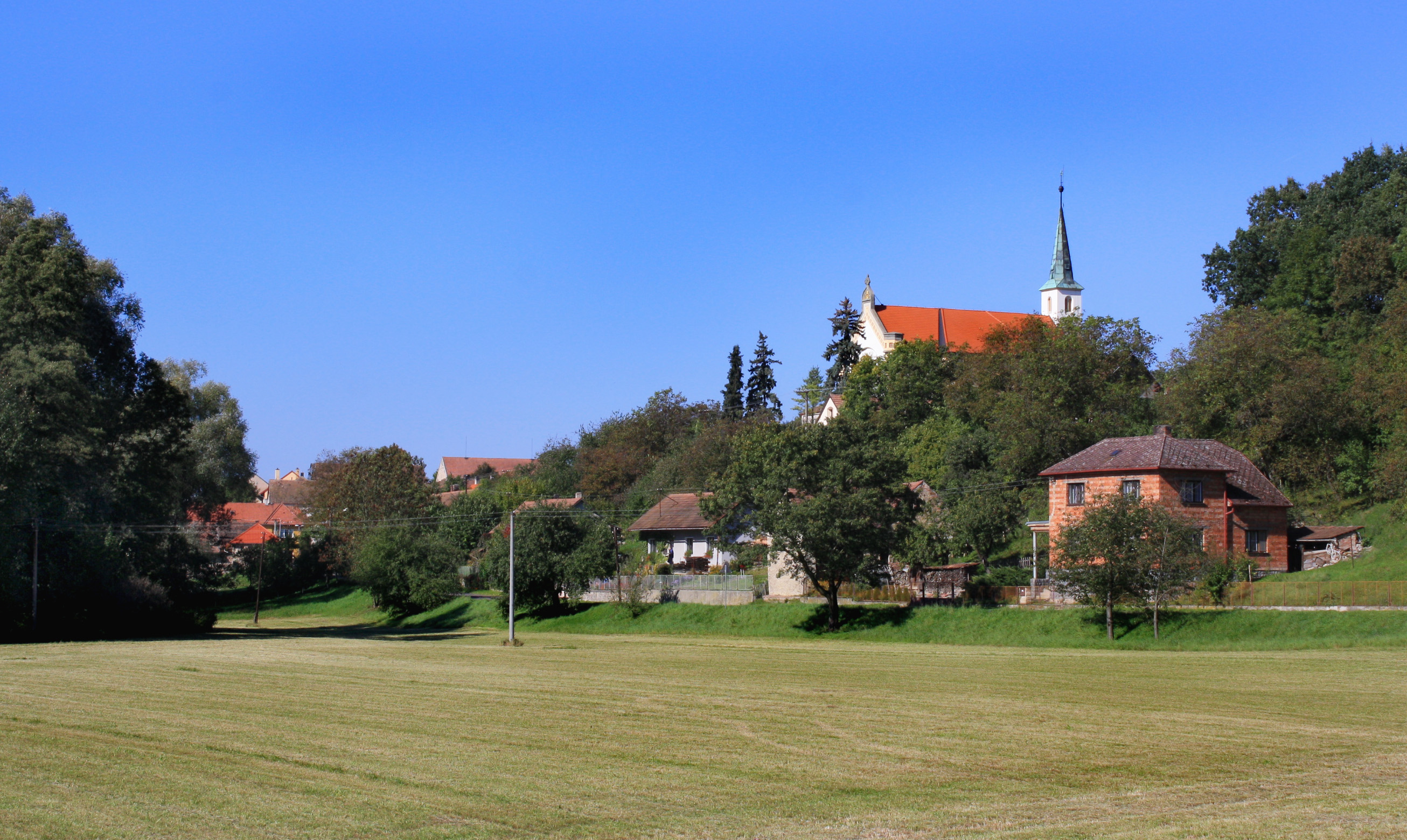 South-east view to Dvakačovice, Czech Republic